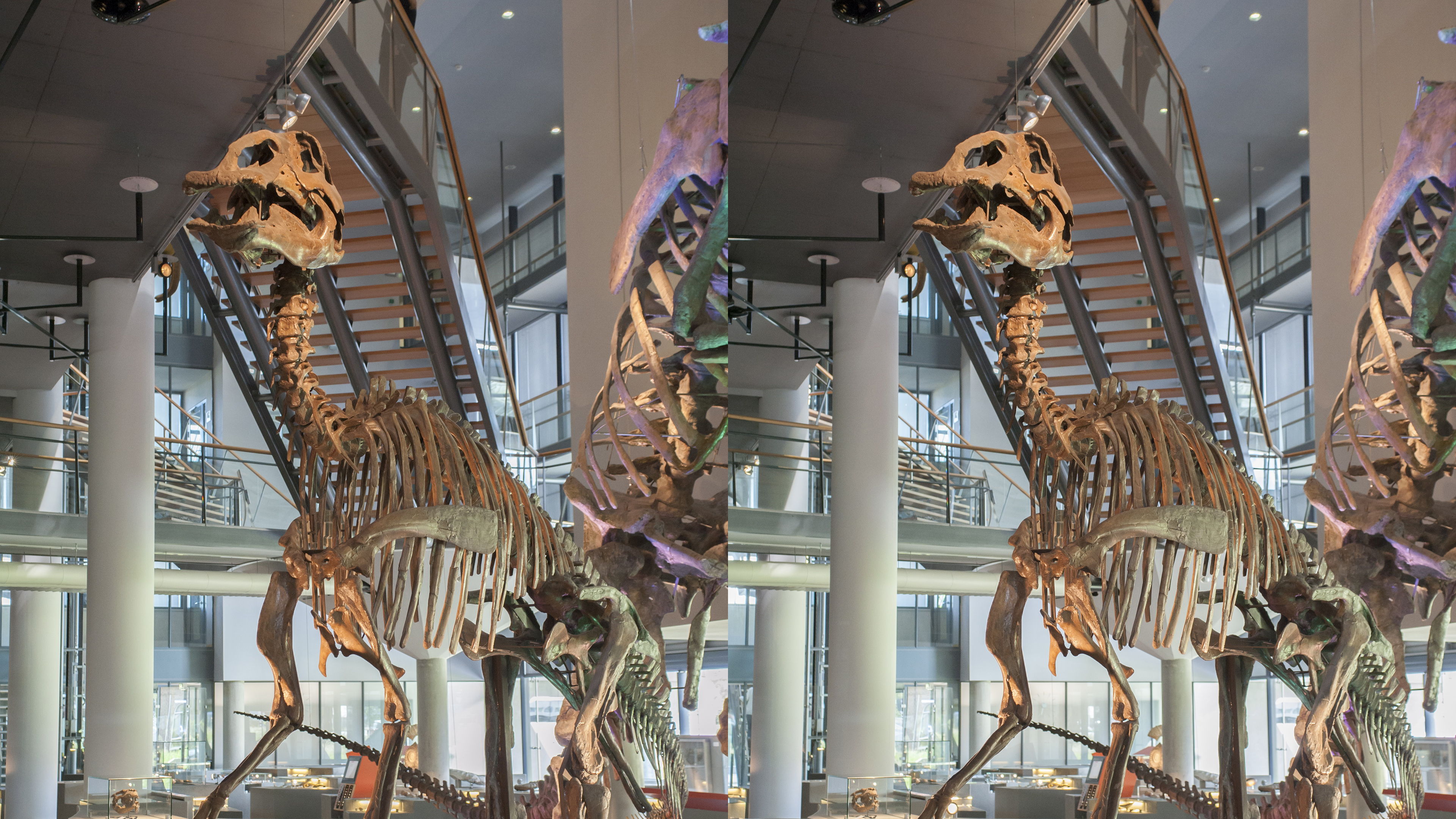 Natural history museum Naturalis, Leiden. Exhibition Primeval parade. Stereo image Edmontosaurus skeleton.